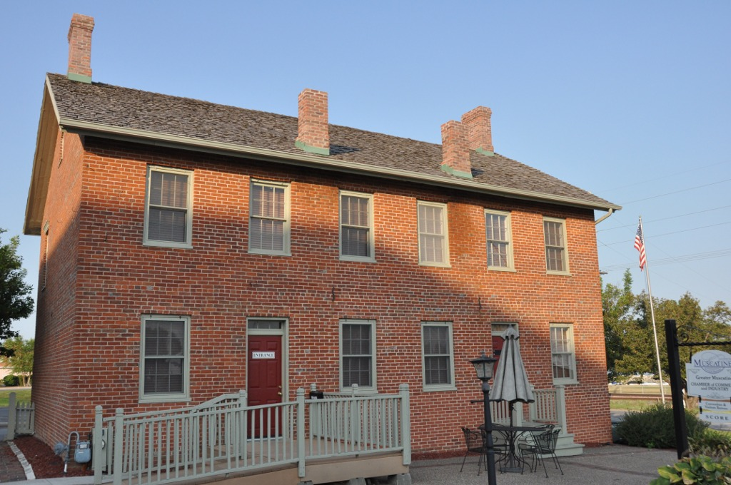 The S. M. McKibben House in Muscatine, Iowa; now houses the local chamber of commerce.